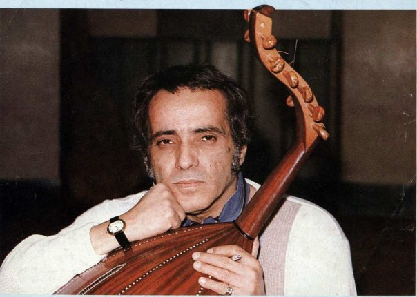 Photo of composer Baligh Hamdi (1932-1993)